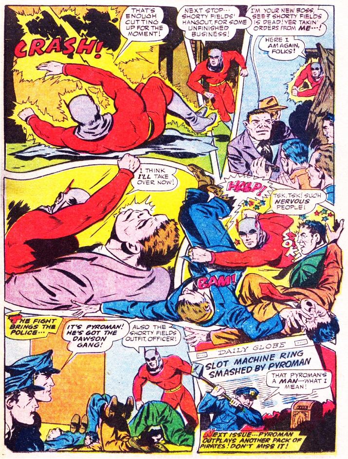 America's Best Comics #22, Page 22, June, 1947